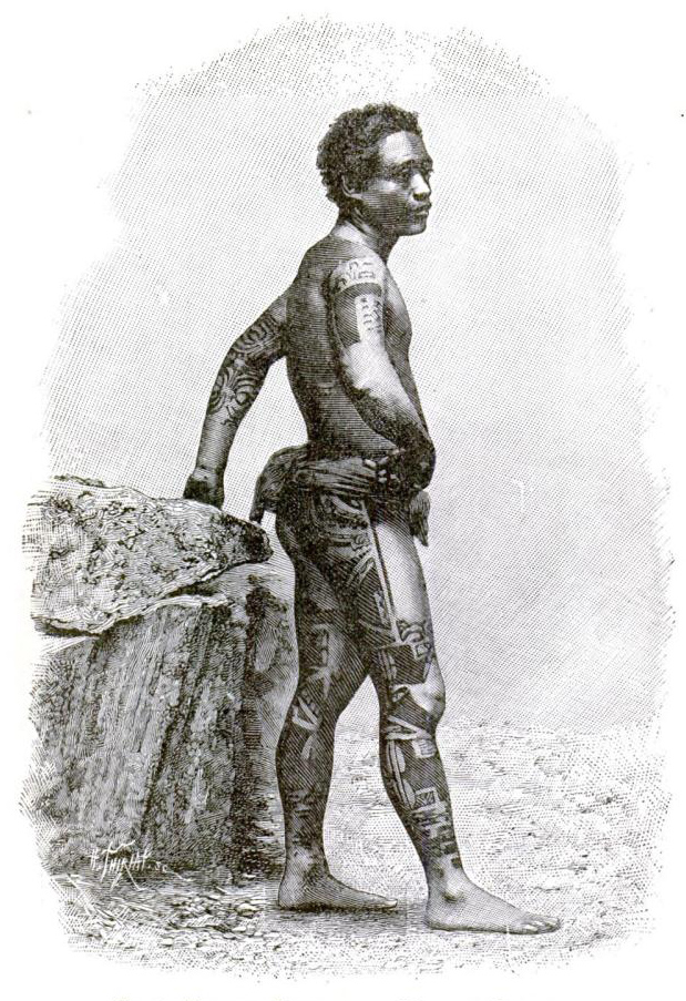 Etching of a man from the Marquesas Islands, showing his tatoos